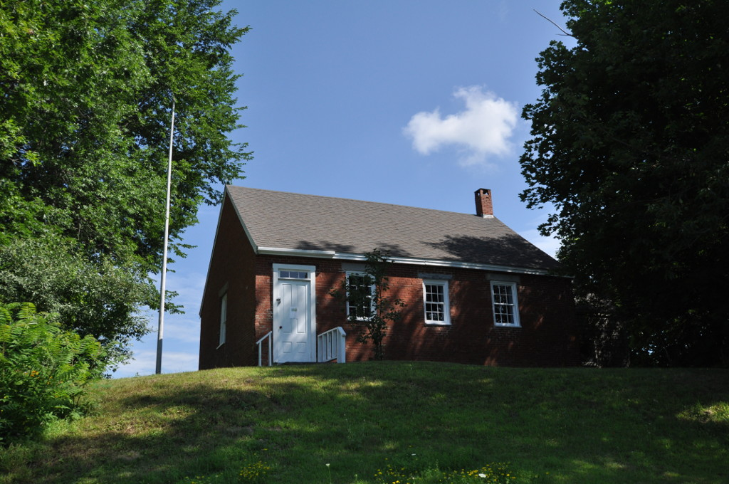 Colburn School, Pittston, Maine.